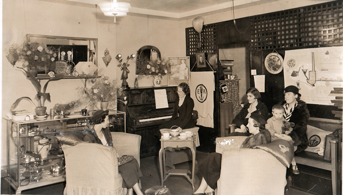 Afternoon-tea time at the Electrical Association for Women's rooms, Violet McKenzie at piano